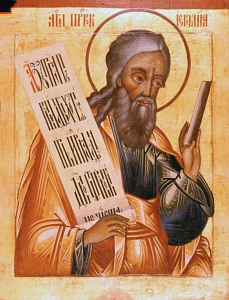 Prophet Jeremiah, Russian icon from first quarter of 18th cen.